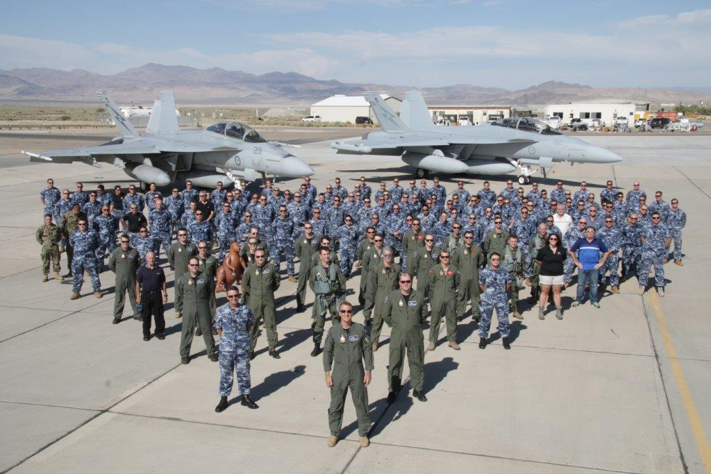 Members of the Royal Australian Air Force No. 1 and No. 6 Squadrons are joined by Naval Air Warfare Center Weapons Division personnel during recent testing aboard Naval Air Weapons Station China Lake.